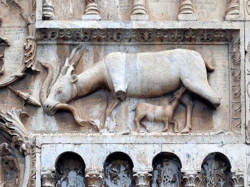 Spoleto: San Pietro church, facade - detail: gazelle with child biting a snake